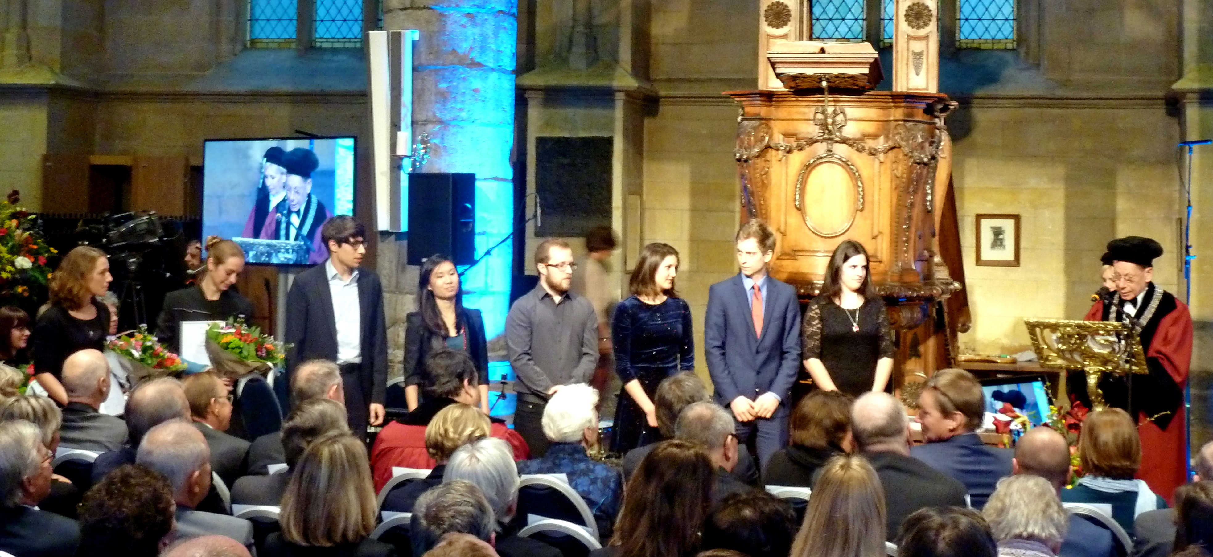 Maastricht University, the Netherlands. Students being honoured by rector magnificus Luc Soete at the university's 39th dies natalis celebration (birthday) in the church of Saint John. This is a cropped version of a photograph uploaded by Romaine on January 17, 2015.